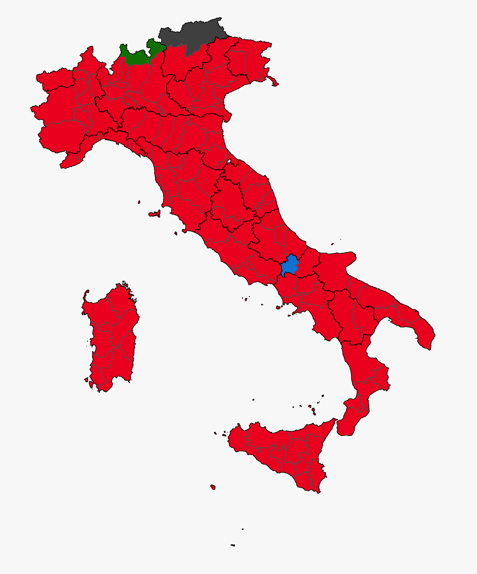 Province of Italy after 2014 European election